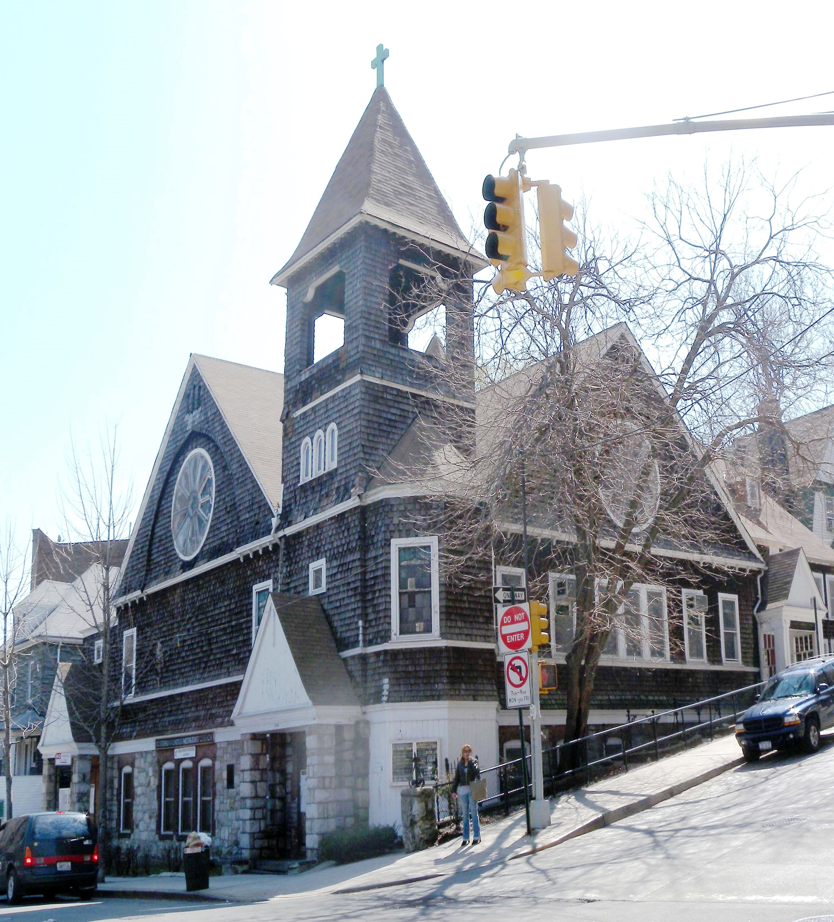 Looking south across 228th Street and Marble Hill Avenue on a sunny midday at St Stephens United Methodist Church in Marble Hill.